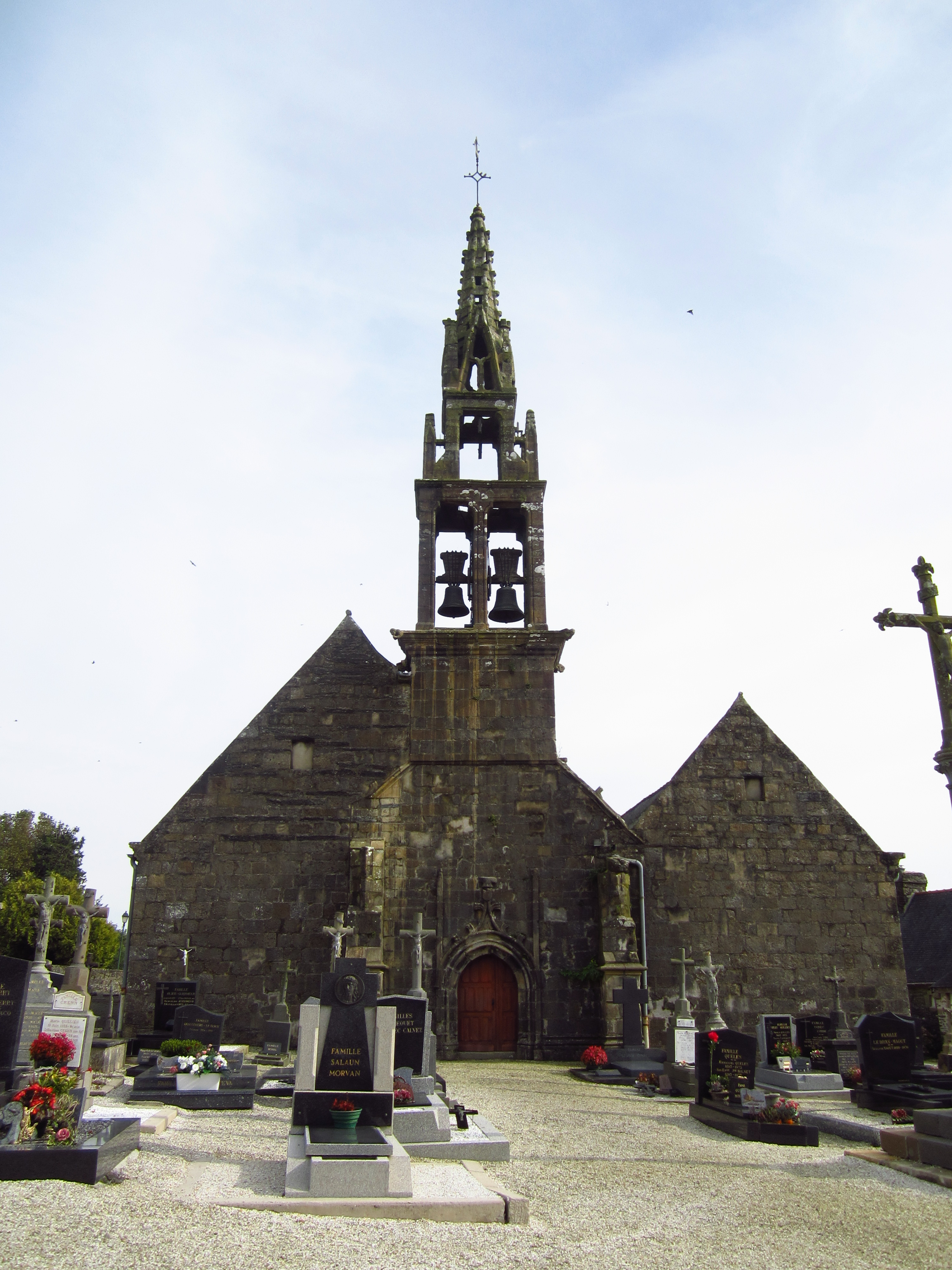 Church of Tréflévénez, Finistère